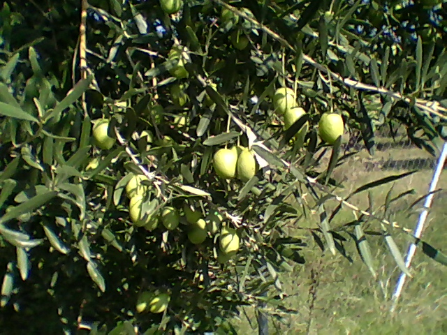 Yerakini Green Olives as they are on the olive tree before harvest, Chalkidiki, Greece Other information